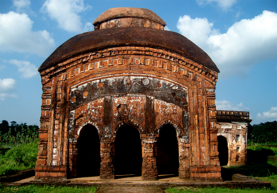 Ghanashyam's house, Joysagar